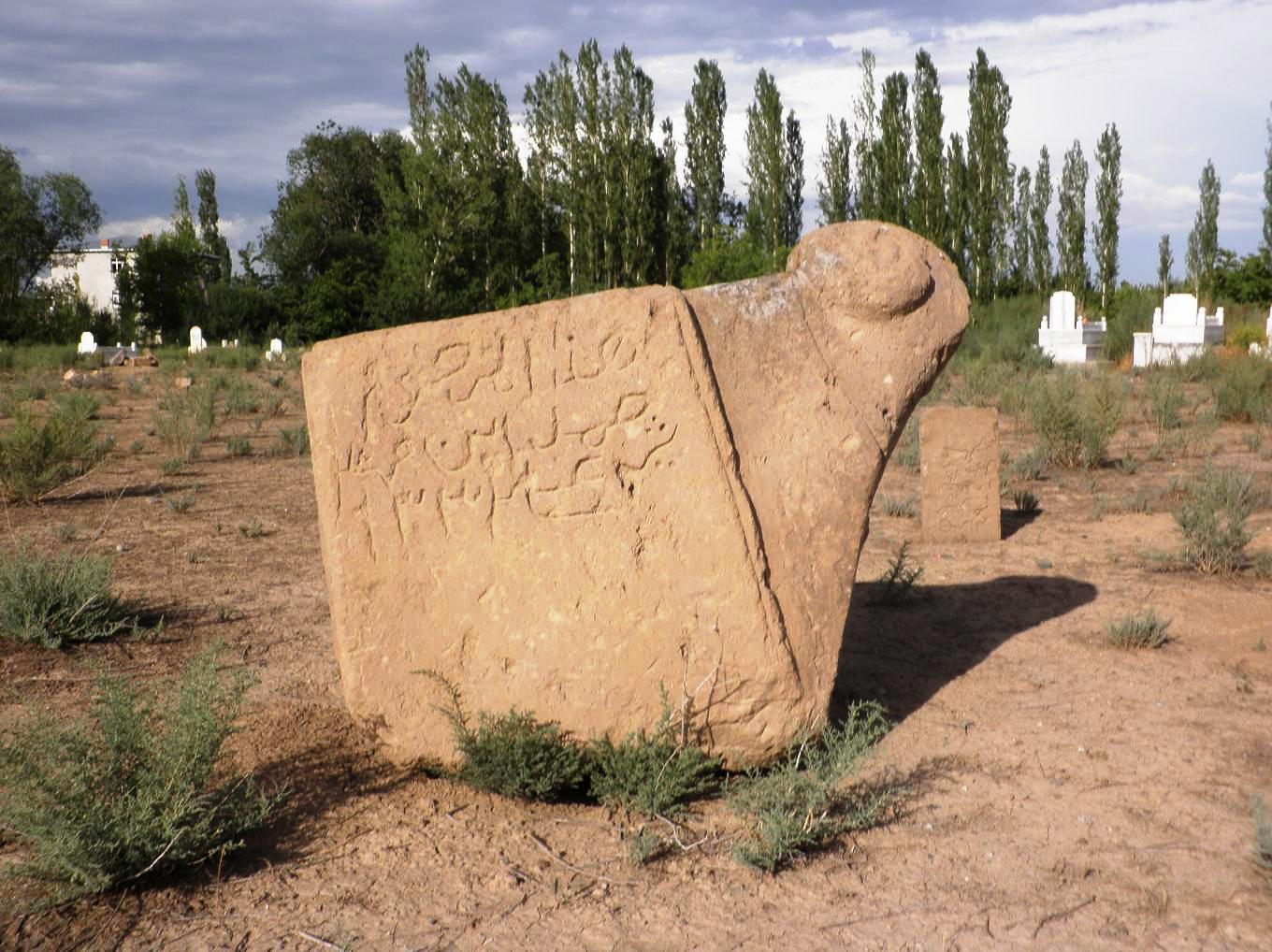 A statue with ram head in Küllük Village.